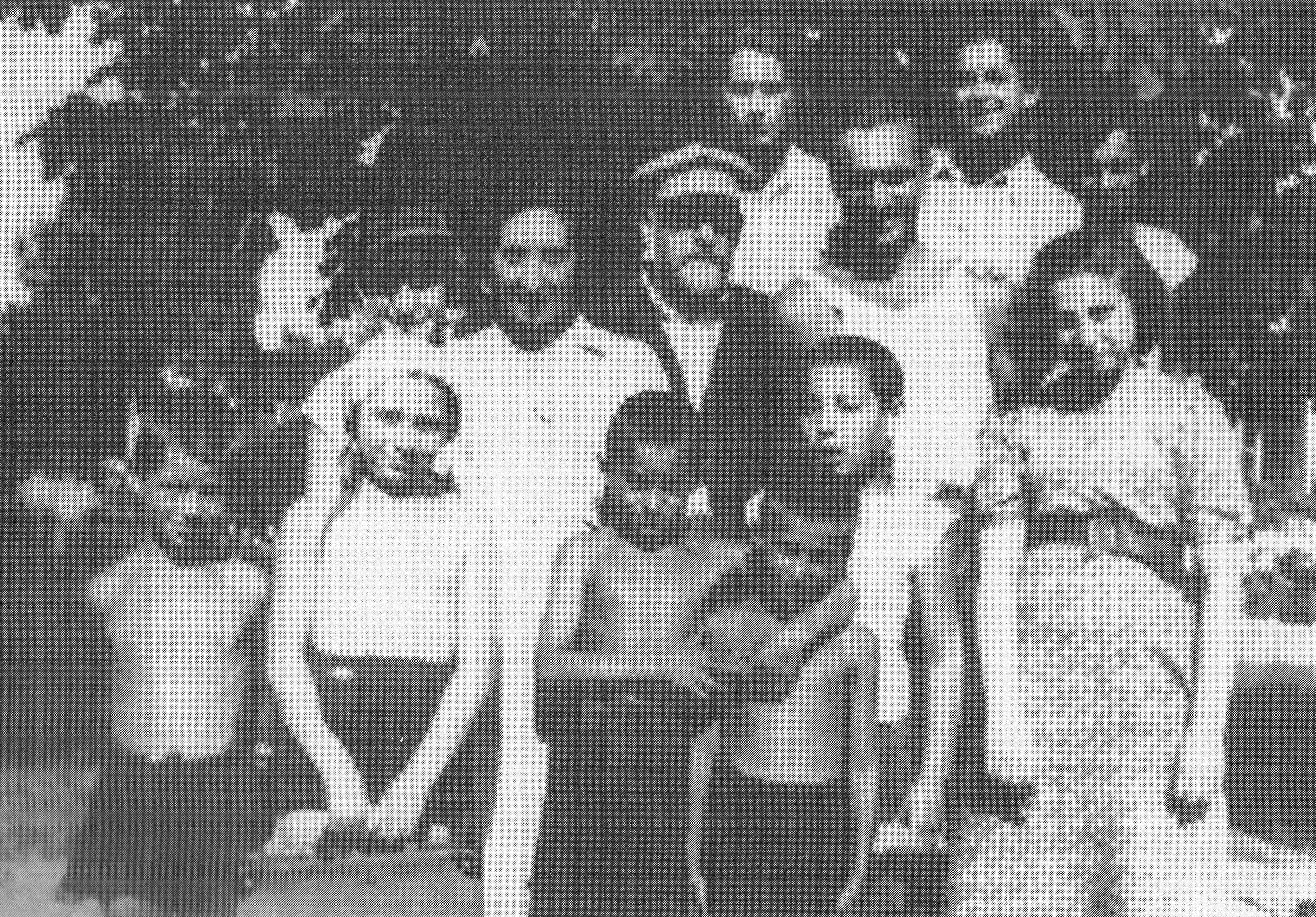 Janusz Korczak and Misza Wróblewski with children from Dom Sierot orphanage in Warsaw